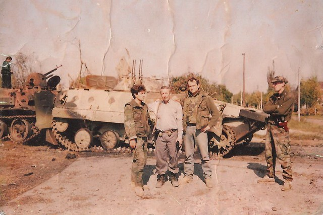 Heroes de Vukovar Goran es el de la Derecha